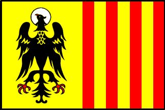 Flag of Morovis, Puerto Rico